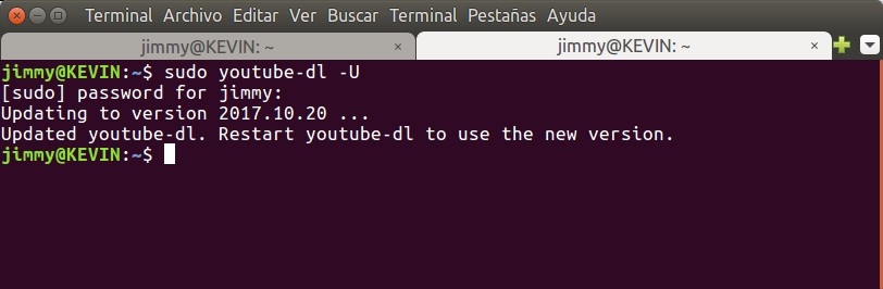 Command-line autoupdate for youtube-dl software.